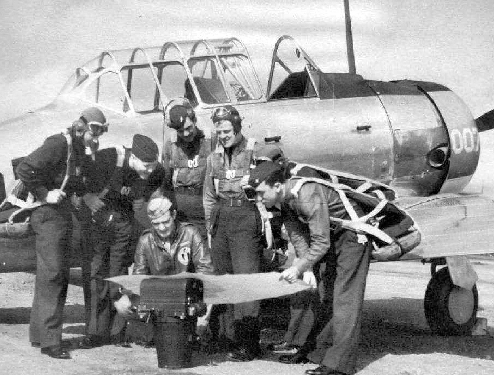 Brooks Field - Observation Cadets and Training Instructor with O-47